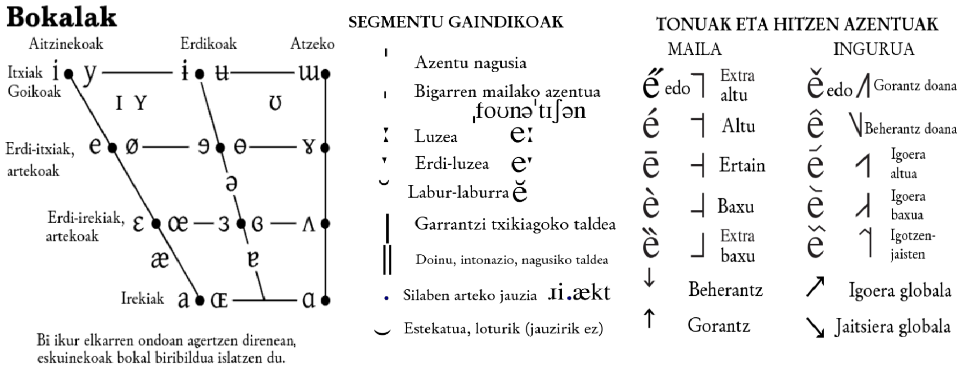 International Phonetic Alphabet. Vowels chart. Translated into basque from IPA chart 2005 (c)